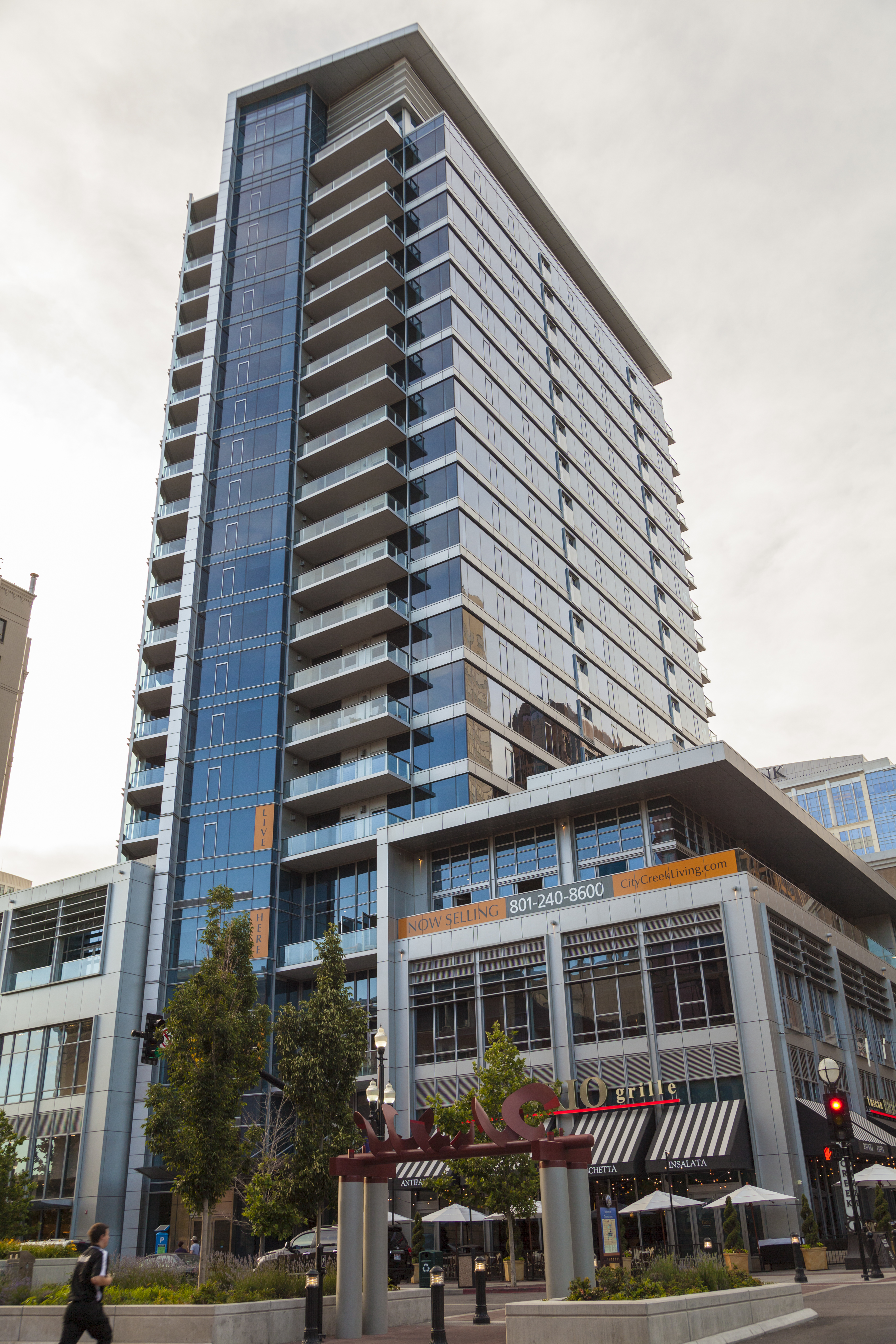 The Regent Tower at City Creek Center in Salt Lake City, Utah, USA.